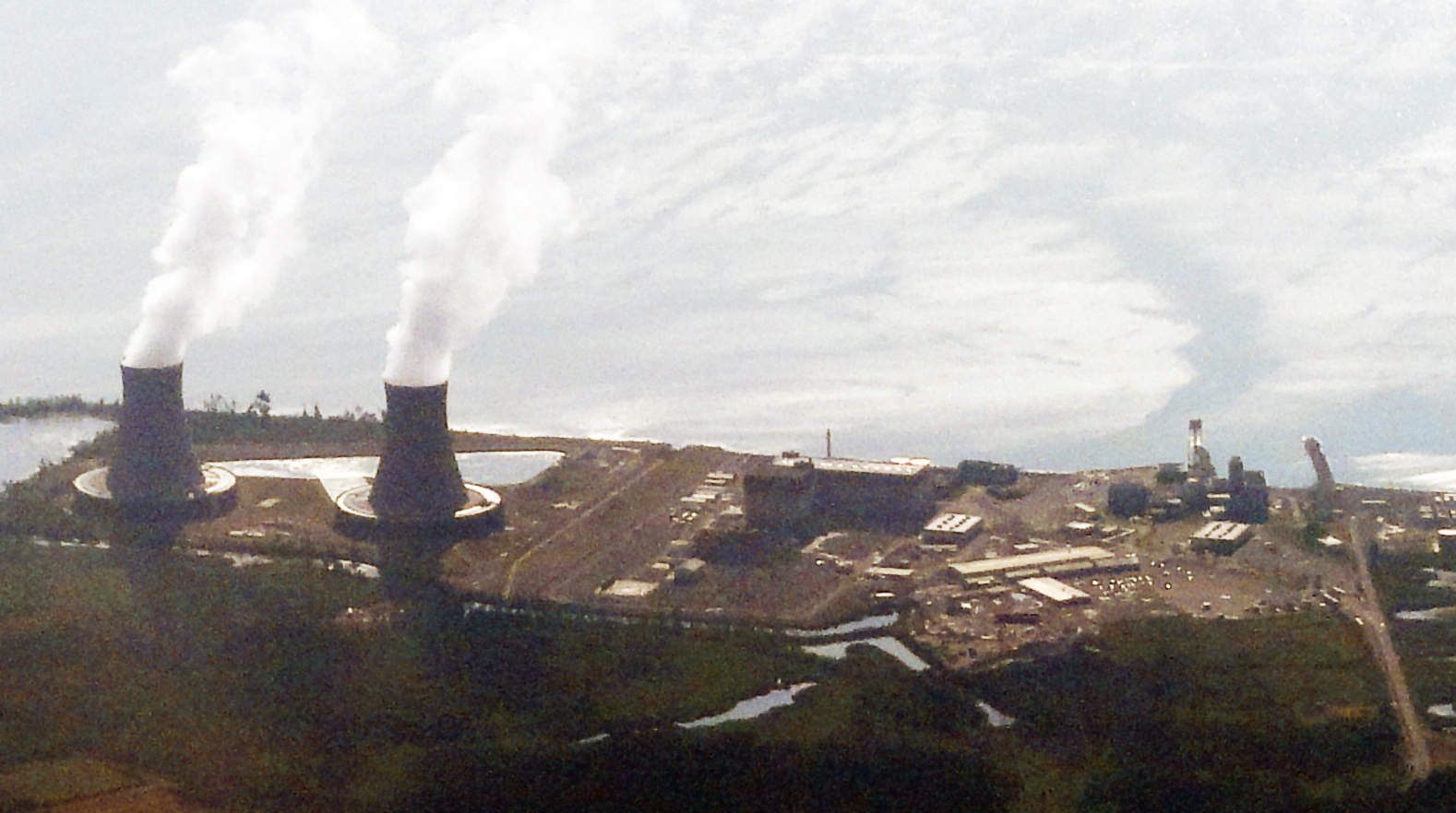 The Enrico Fermi Nuclear Generating Station as seen on a flight from Detroit, Michigan to Louisville, Kentucky.